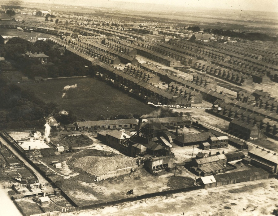 Lower Condercum House can be seen in the background with Condercum Road the first street to the right of the colliery. The pit employed over 400 people in 1934 but closed in 1939. Reference number: TWAS: DS.CAR.17.3 (Copyright) We're happy for you to share this digital image within the spirit of The Commons. Please cite 'Tyne & Wear Archives & Museums' when reusing. Certain restrictions on high quality reproductions and commercial use of the original physical version apply though; if you're unsure please . To purchase a hi-res copy please quoting the title and reference number.